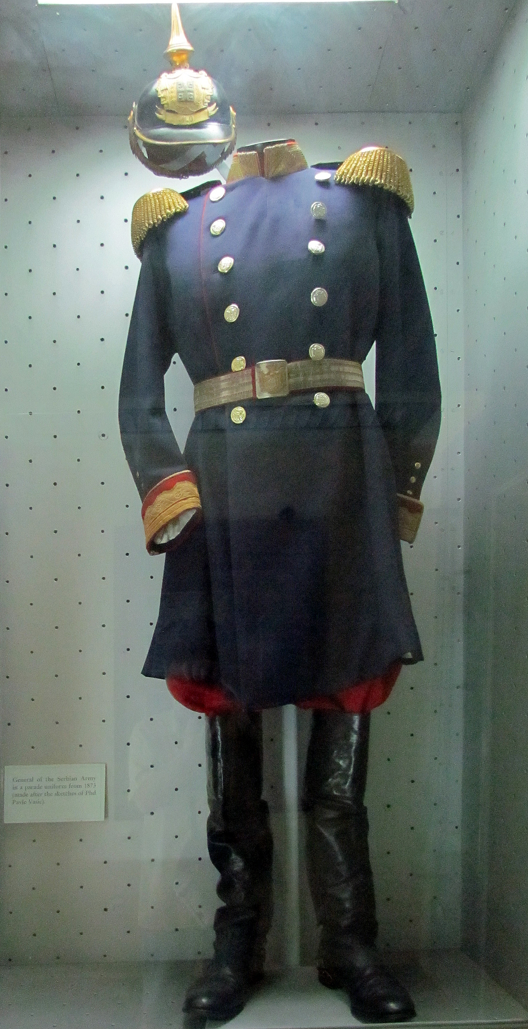 Parade uniform of Serbian army General, 1873, Military Museum, Belgrade